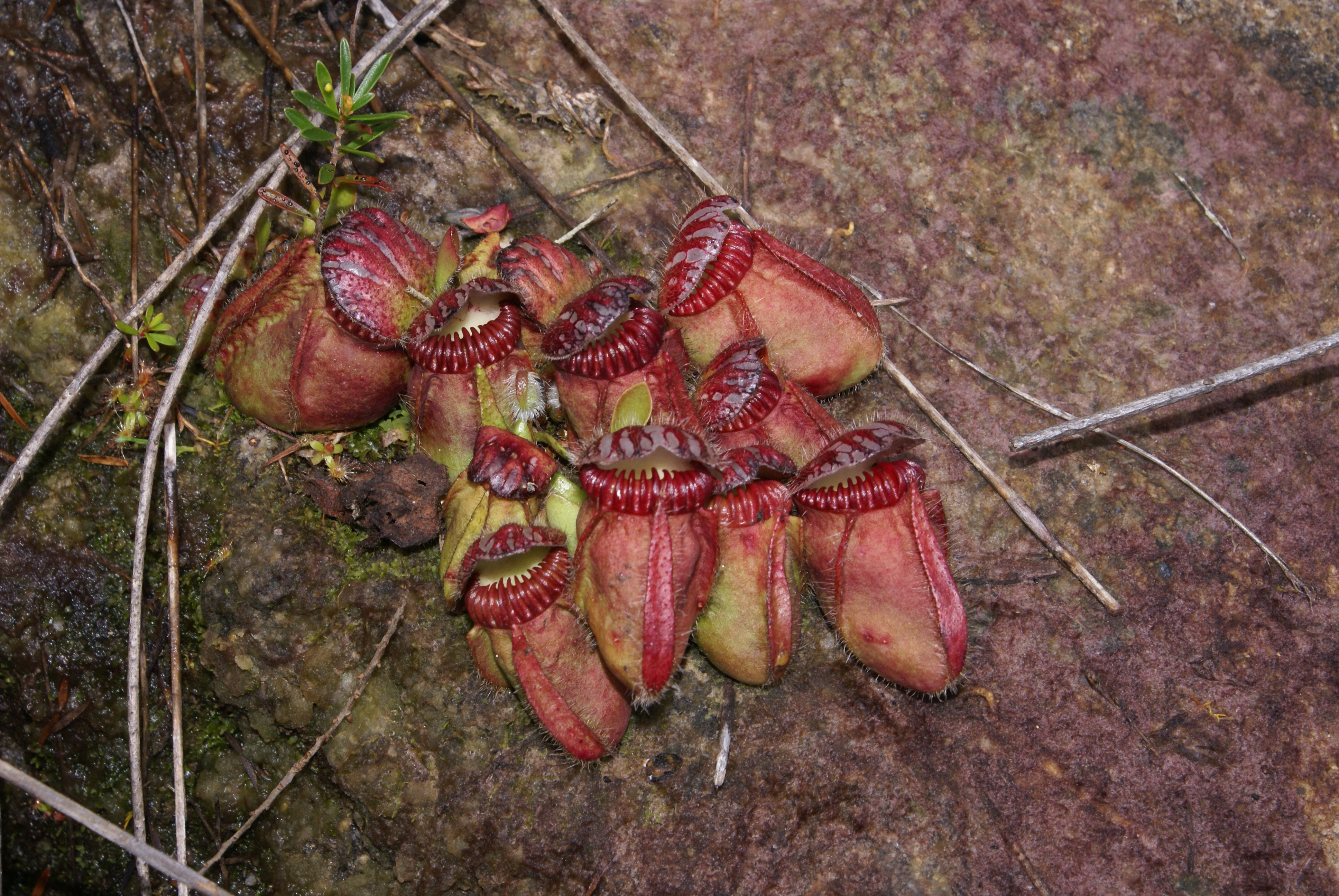 Cephalotus follicularis in situ / SW Australia Coast